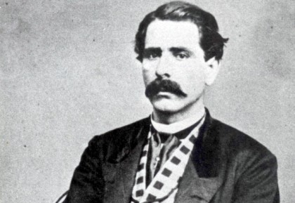 Young Camilo Castelo Branco.